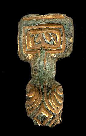 Rectangular head-plate with raised moulding, flattened on the surface. Within the moulding a single raised line follows the same outline; in the centre is a curving abstract motif. Gently arched bow with median vertical ridge. Expanded foot, tapering in slightly to missing foot-plate; within a central lozenge-shaped moulding enclosing a smaller solid lozenge. Moulded curving lines in upper quadrants follow the slightly concave edge of lozenge. Much gilding survives on upper surface. Single hinge, trace of iron corrosion. Catchplate broken.